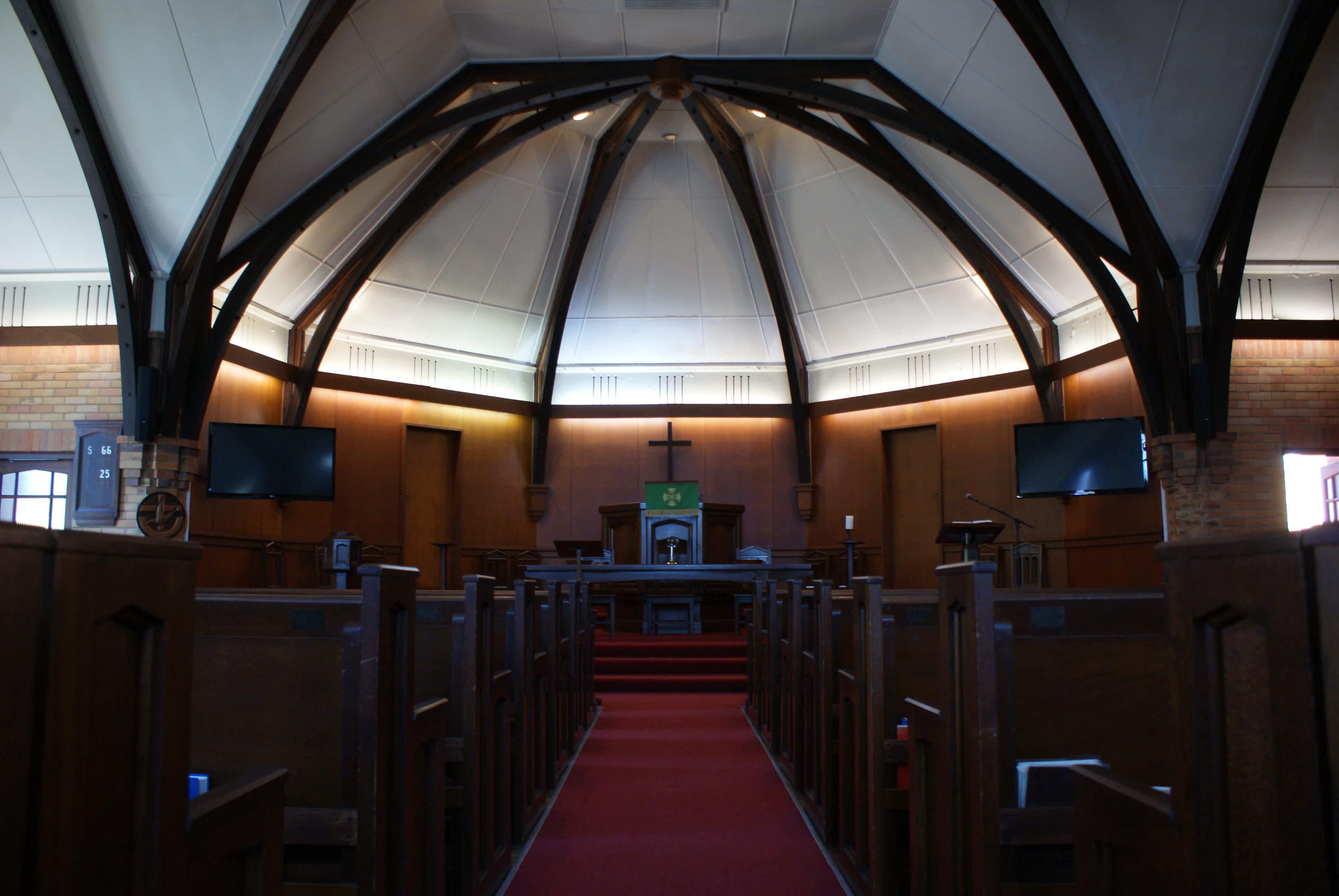 Photo of the Interior of the Presbyterian Church in St Lucia down the aisle